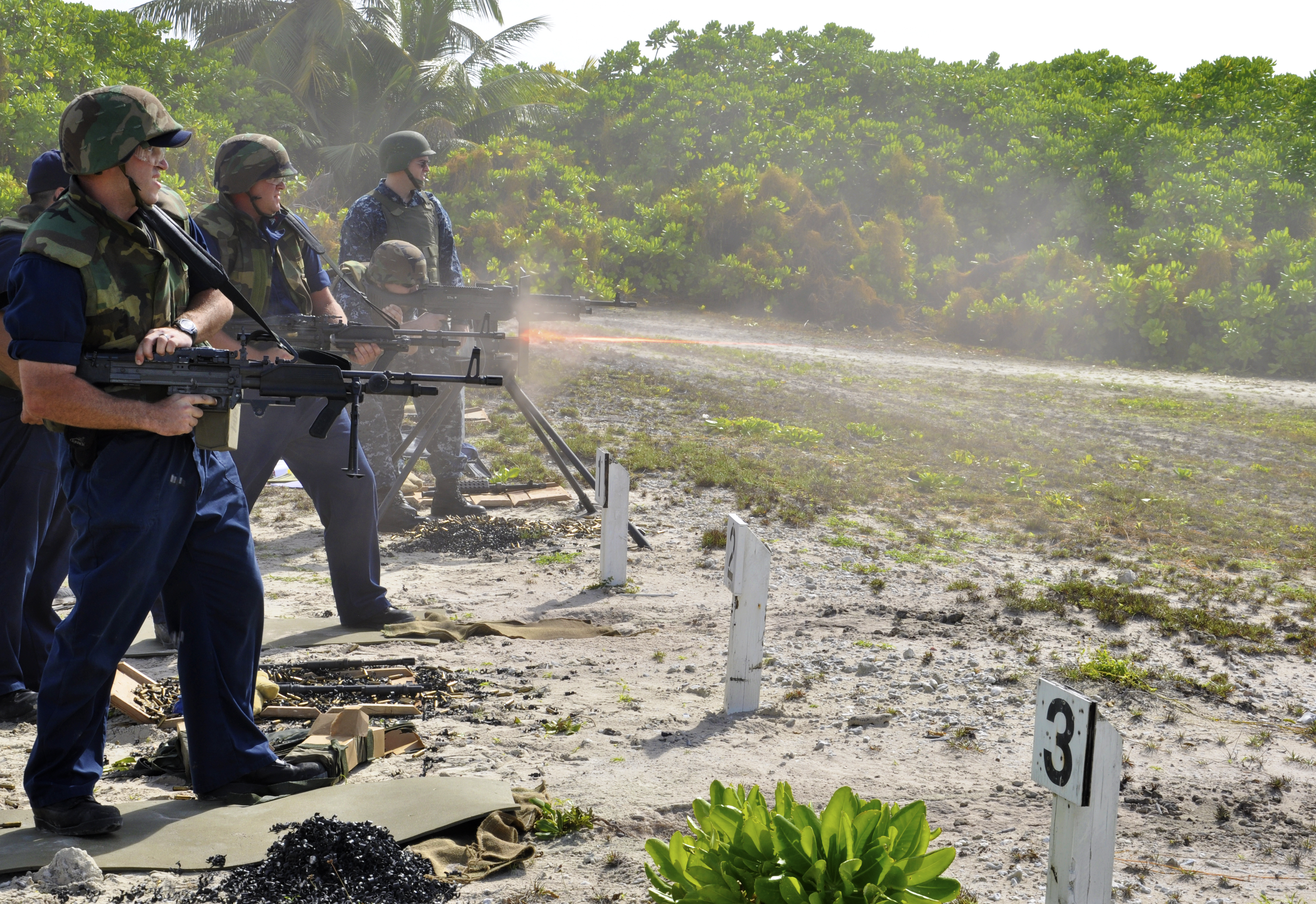 DIEGO GARCIA (Sept. 30, 2010) Sailors engage in a live-fire training exercise at the British Indian Ocean Territory firing range. Sailors assigned to Diego Garcia support the U.S. 7th Fleet area of responsibility. (U.S. Navy photo by Mass Communication Specialist Seaman Michael Thompson/Released)